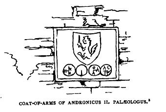 Arms identified as belonging to the Byzantine Emperor Andronikos II Palaiologos (r. 1282-1328), formerly located on a tower above the harbour of Kumkapi in Constantinople (Istanbul).